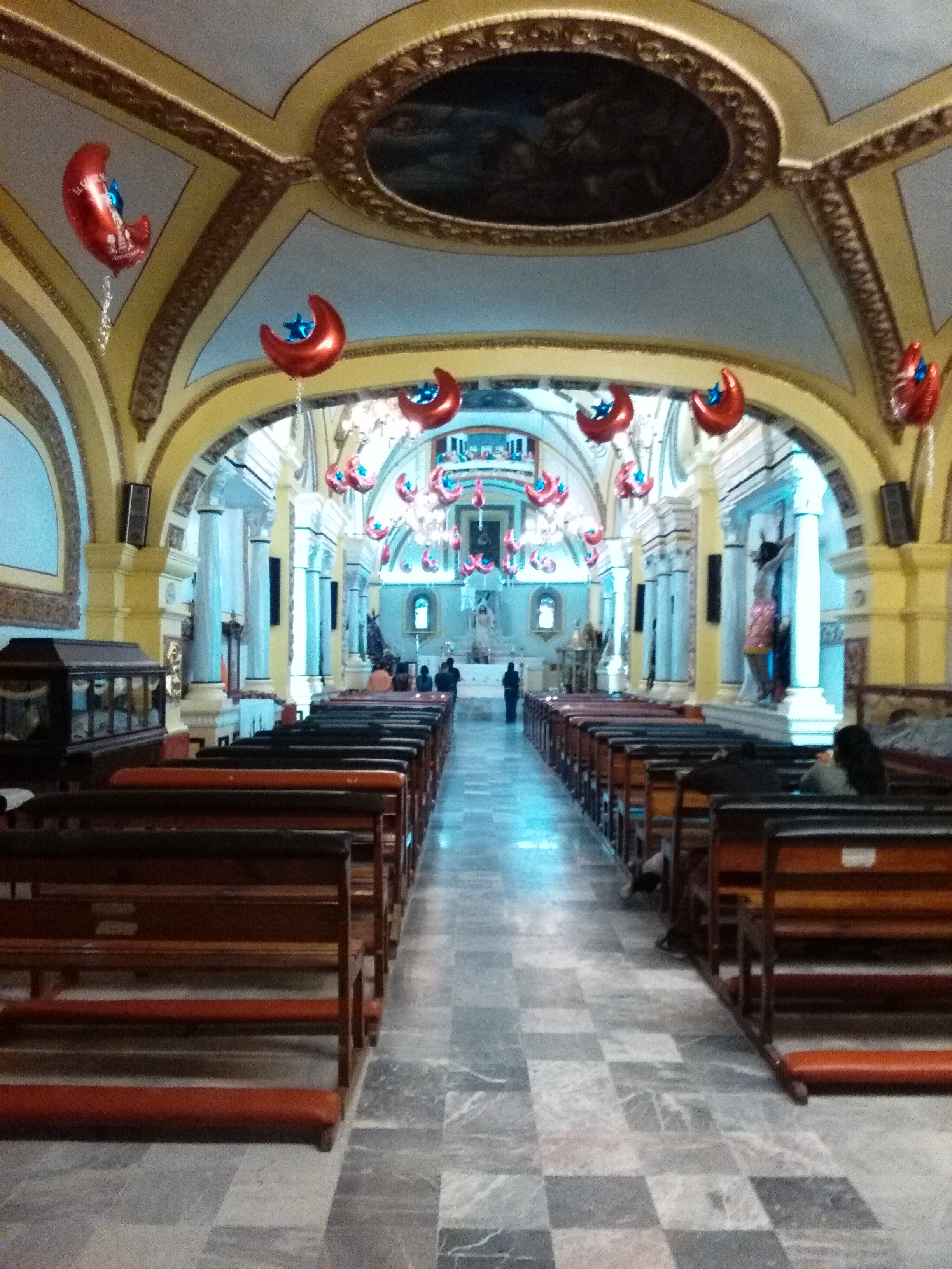 Inside of the church of San Pablo Atlazalpan town